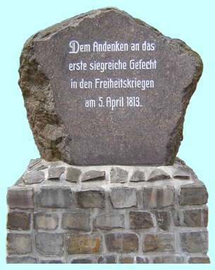 Memorial stone 1813 in Dannigkow (Saxony-Anhalt)